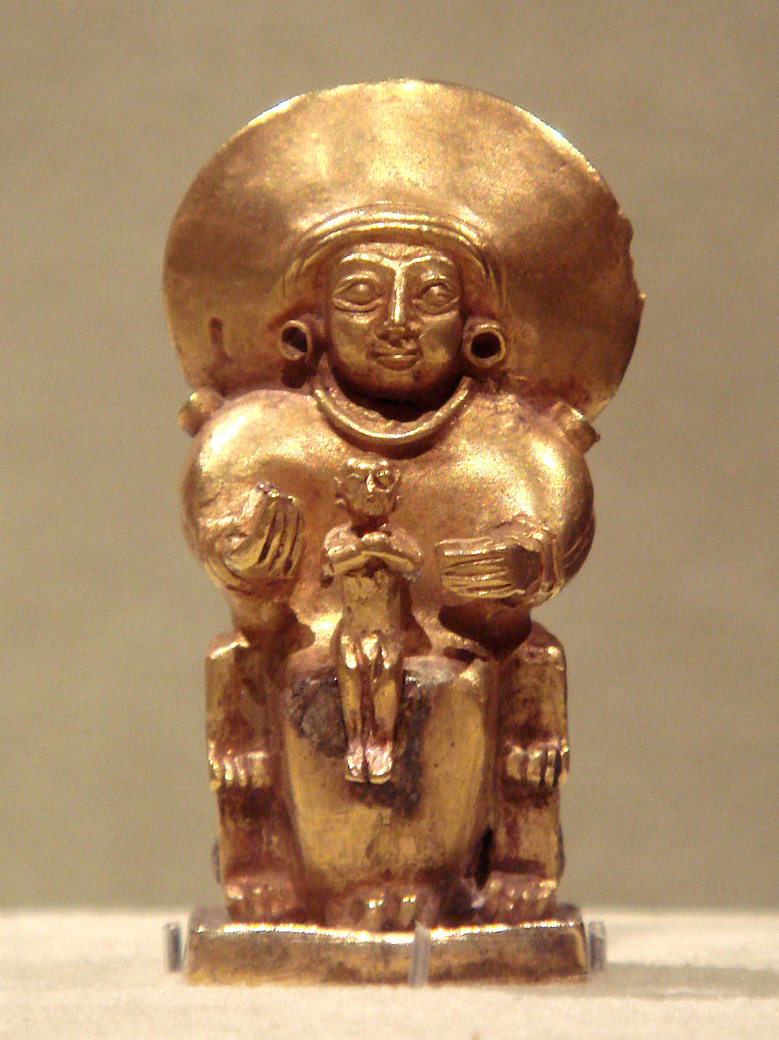 Hittite Goddess And Child, "sun goddess of Arinna"Anatolia 15th-13th Century BCE